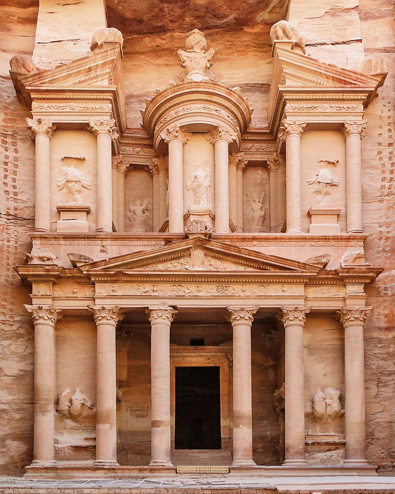 Pétra. Facade of al Khazneh.